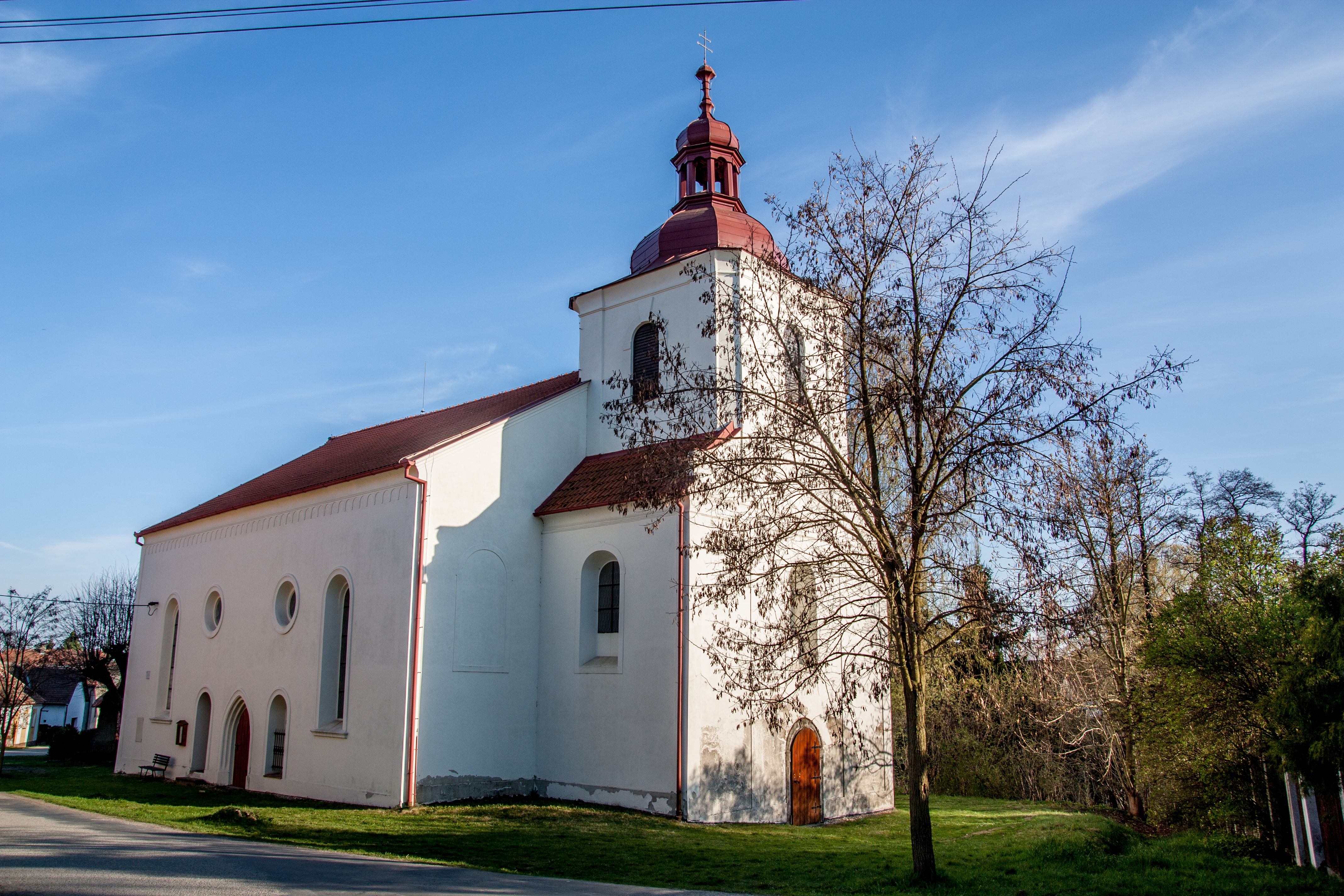 Immaculate Conception church in municipality Hoštice, Tábor District, South Bohemian Region, Czechia